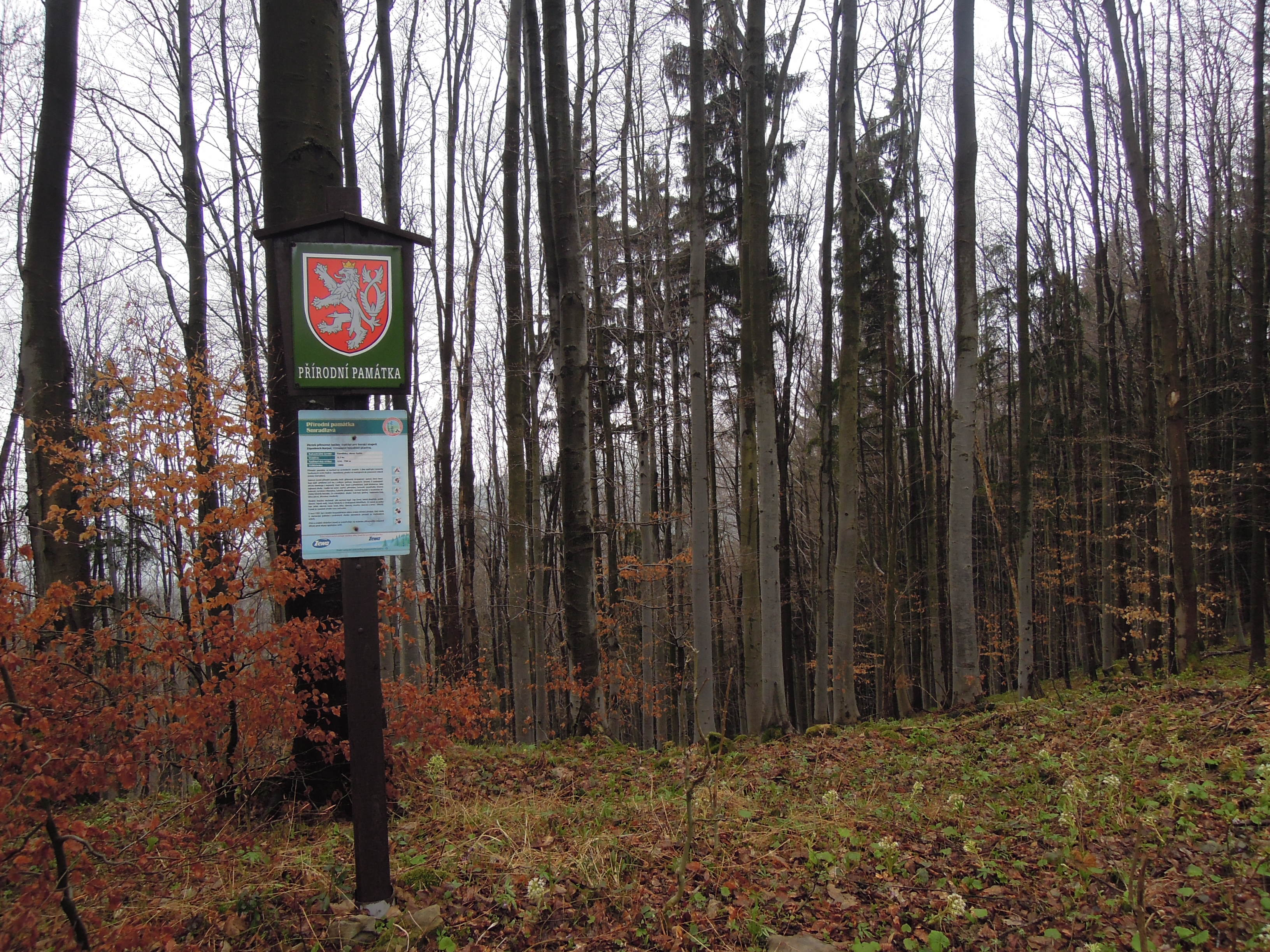 Smradlavá natural monument in Karolinka, Vsetín District, Zlín Region, Czech Republic